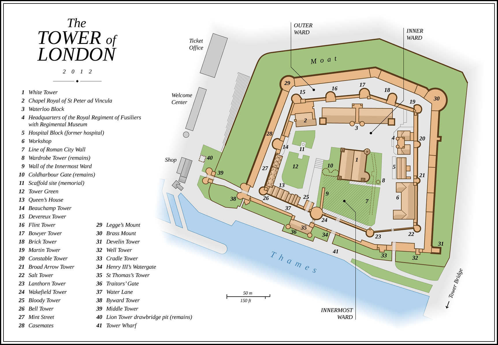 Map of the Tower of London (English version)